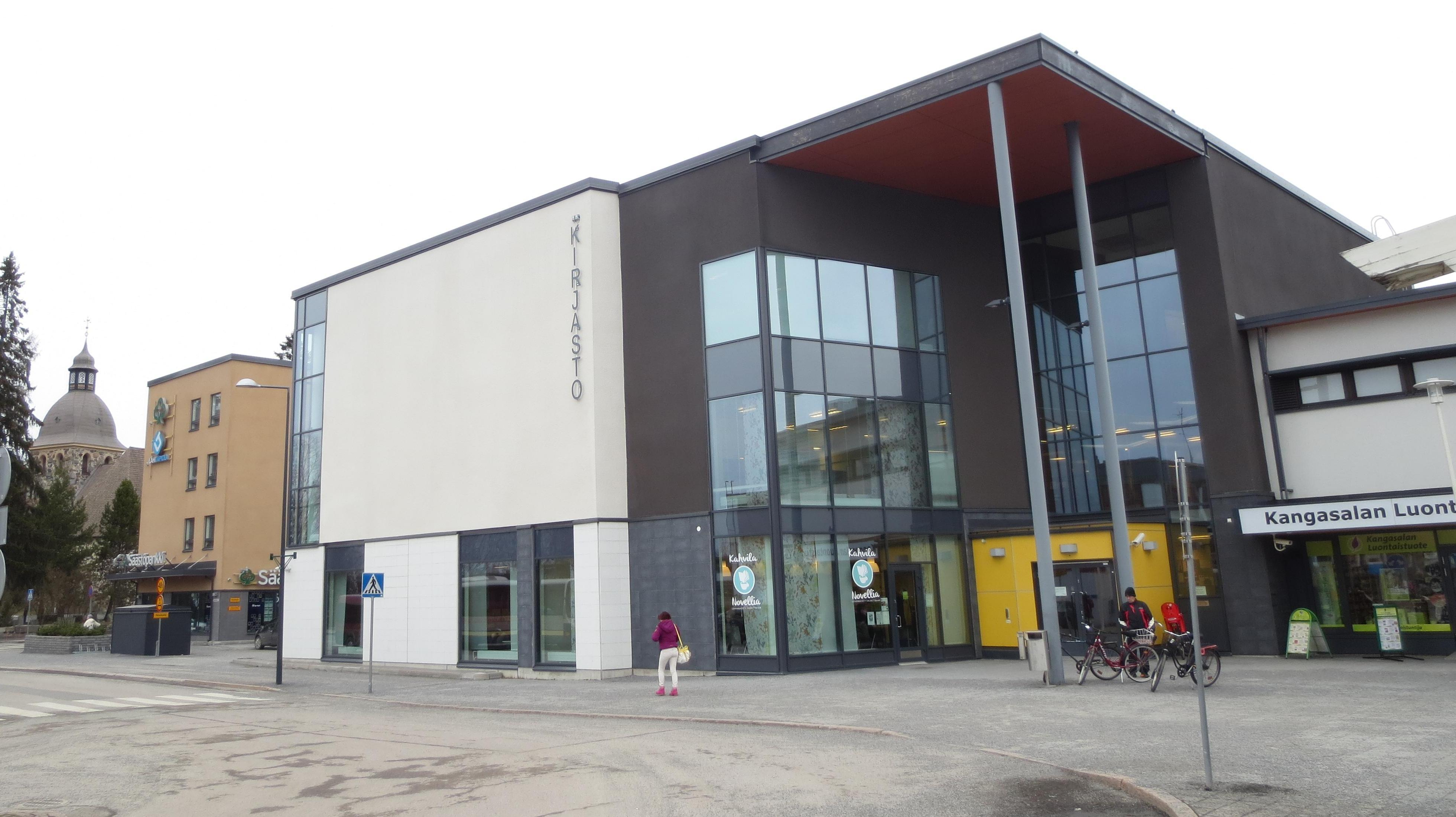 Kangasala main library